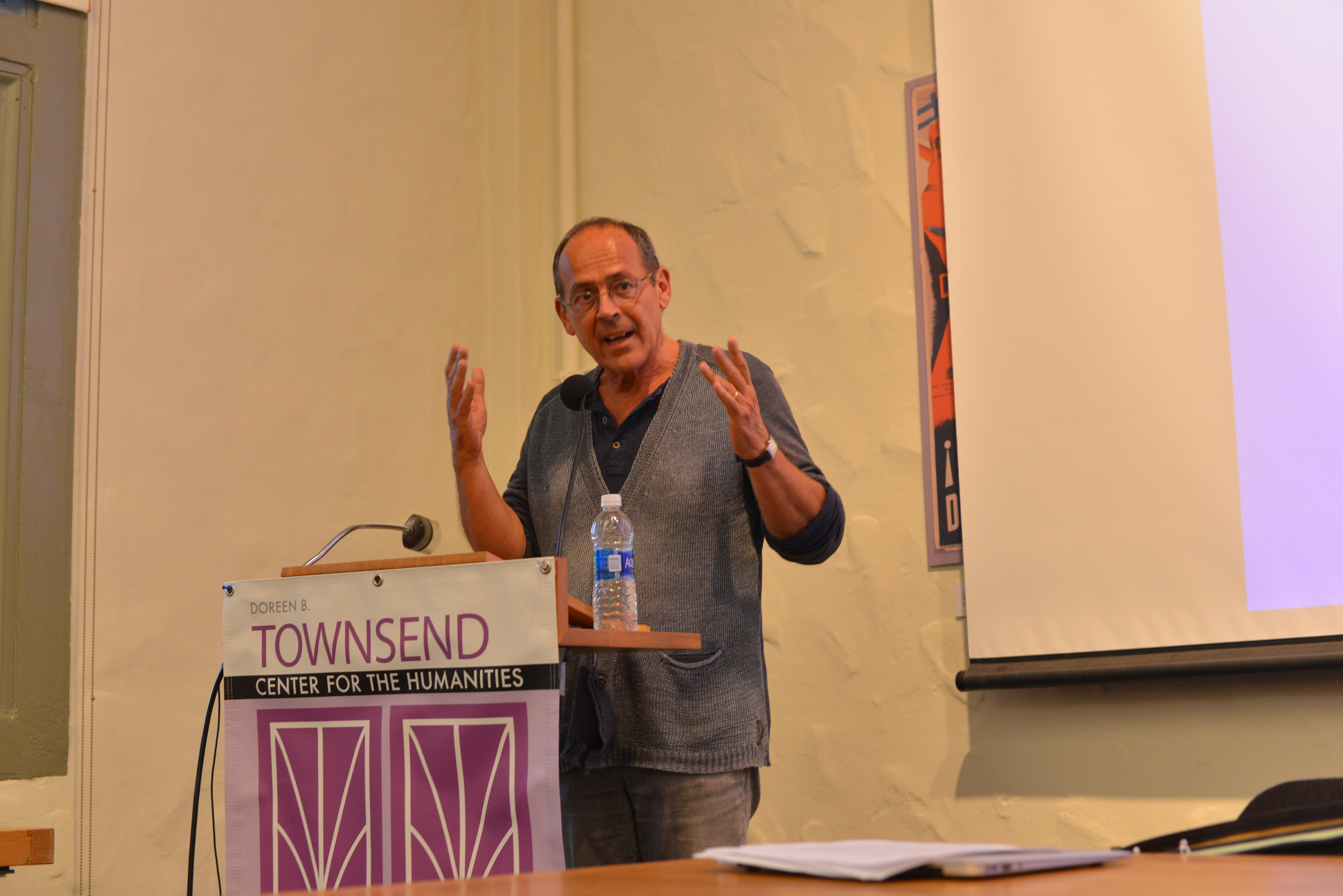 Bernard Stiegler at the "Technology, Space, Reason: Infrastructures of Knowledge in the Anthropocene" symposium for the History and Theory of New Media lecture series on Oct 13, 2016. Co sponsored with the Townsend Center for the Humanities, the Dean of Humanities, and the Rhetoric Department.